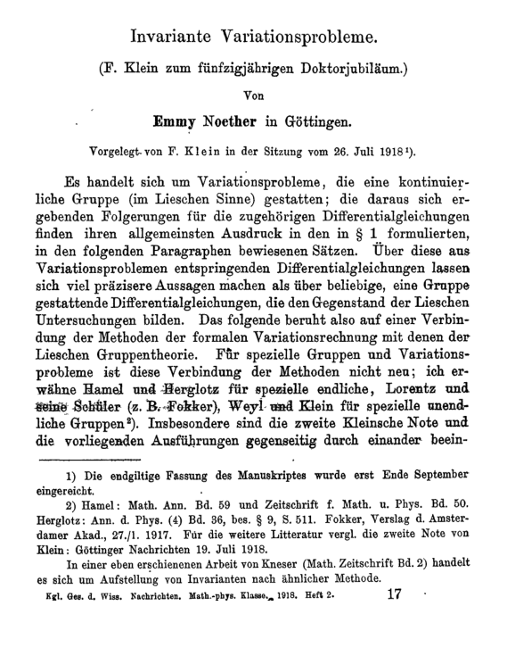 First page of E. Noether's paper "Invariante Variationsprobleme" (Nachrichten von der Gesellschaft der Wissenschaften zu Göttingen, Mathematisch-Physikalische Klasse 1918 (1918): 235-257. ), where she proved the homonymous theorem.